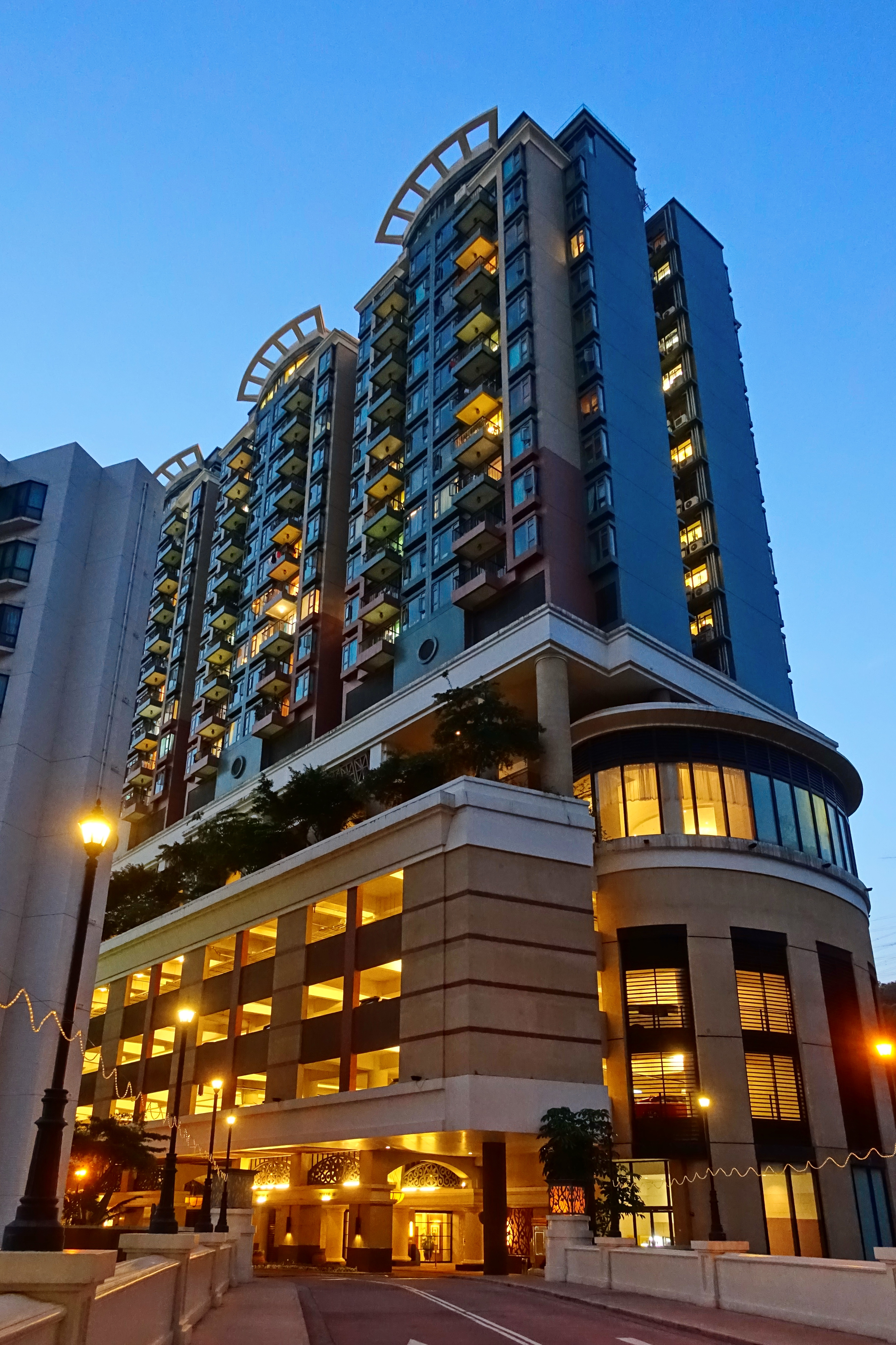 The Cairnhill, Tower 10, Phase 1, Hong Kong.